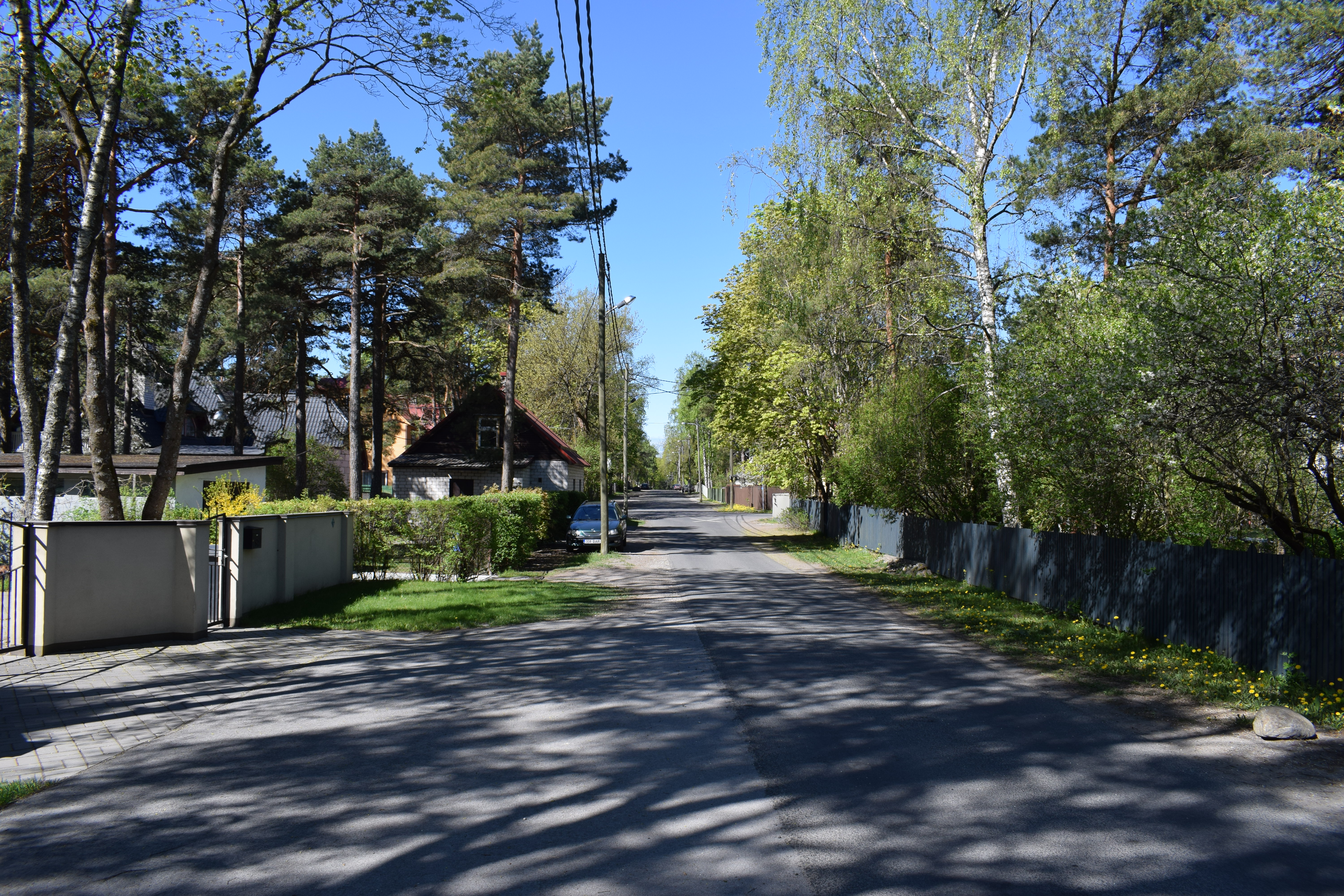 Harku street